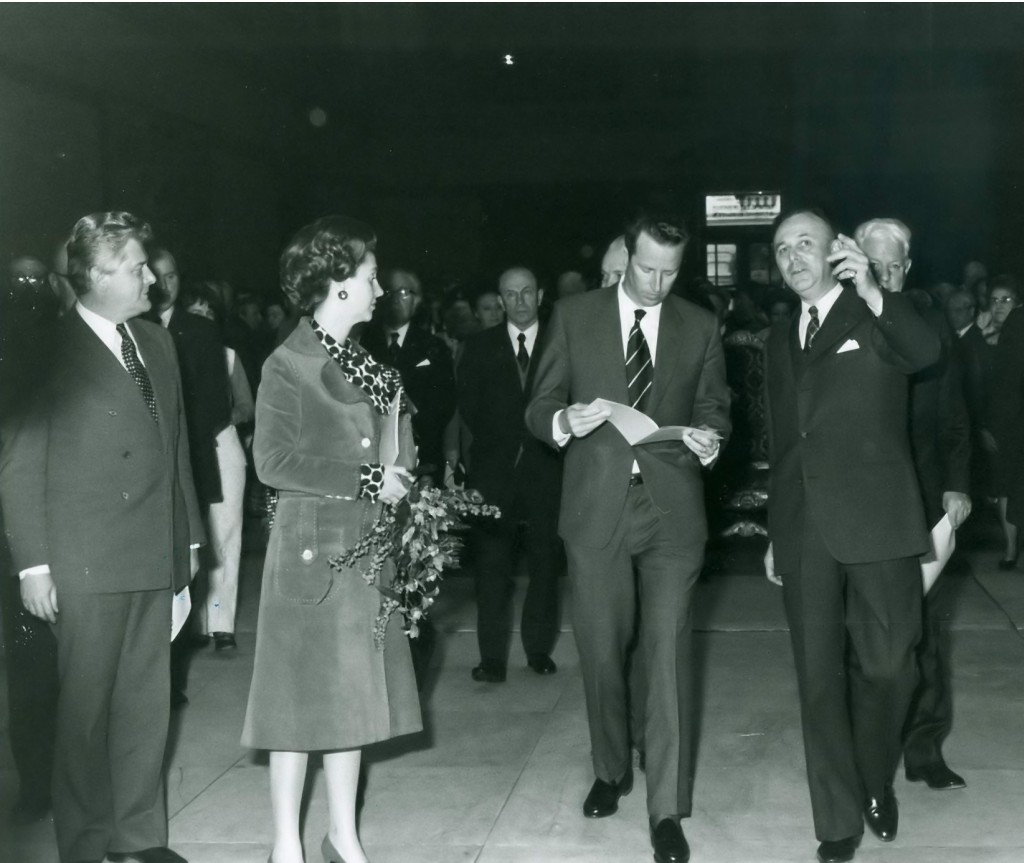 Roi Baudouin and Reine Fabiola and Philippe Robert-Jones Inauguration of the extension of the MRBAB (Brussels, Belgium) by King Baudouin and Queen Fabiola, accompanied by Minister Leburton and Philippe Roberts-Jones